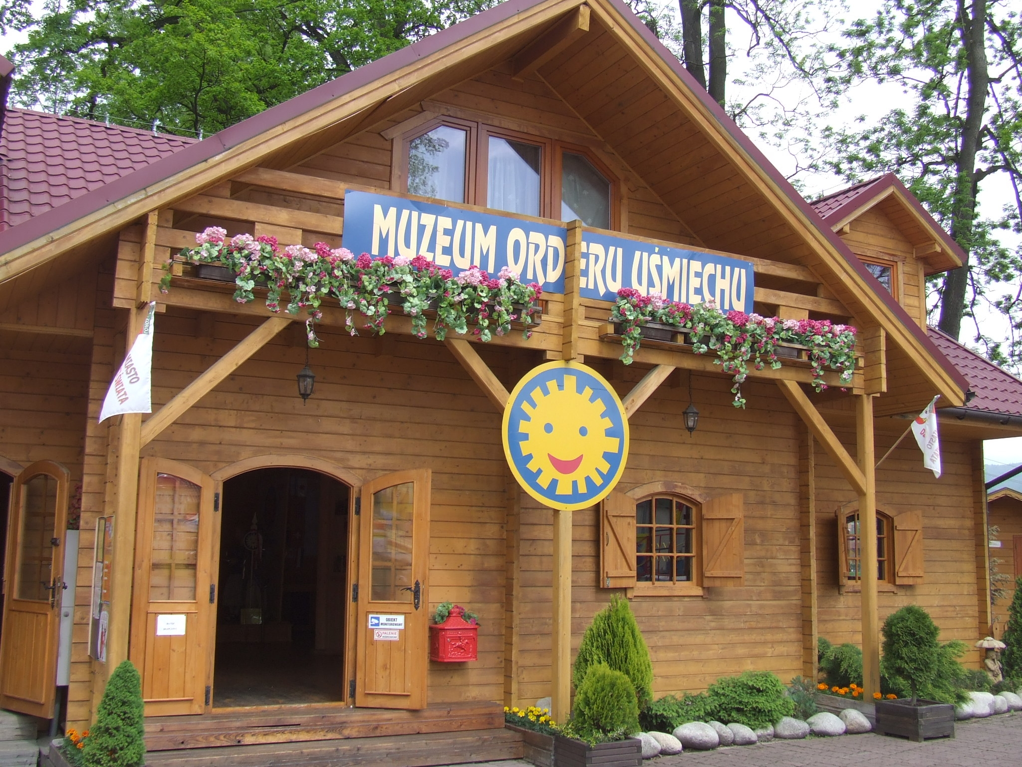 Museum of The Order of Smiling in Rabka-Zdroj